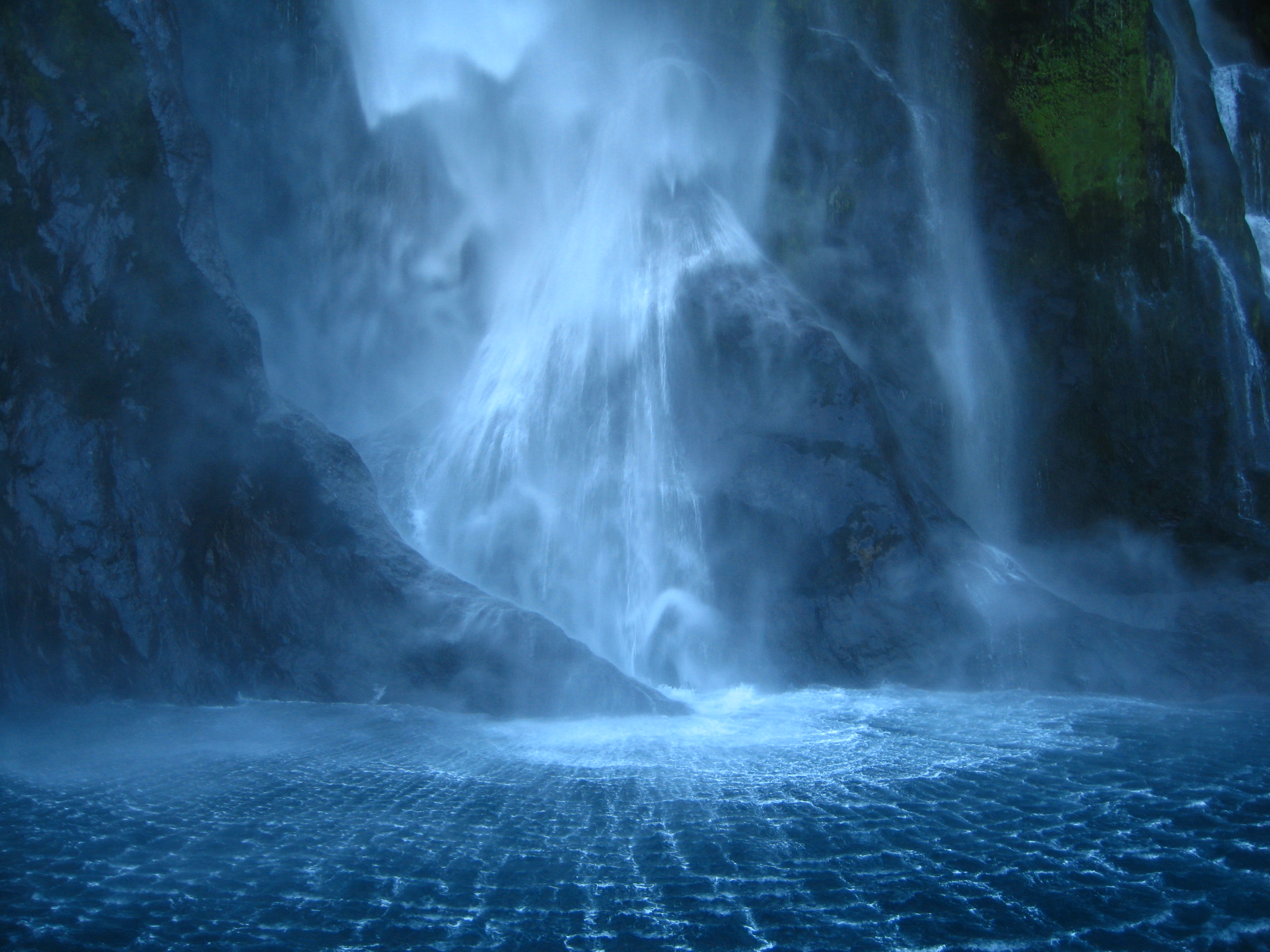 Stirling Falls, Milford Sound, New Zealand.